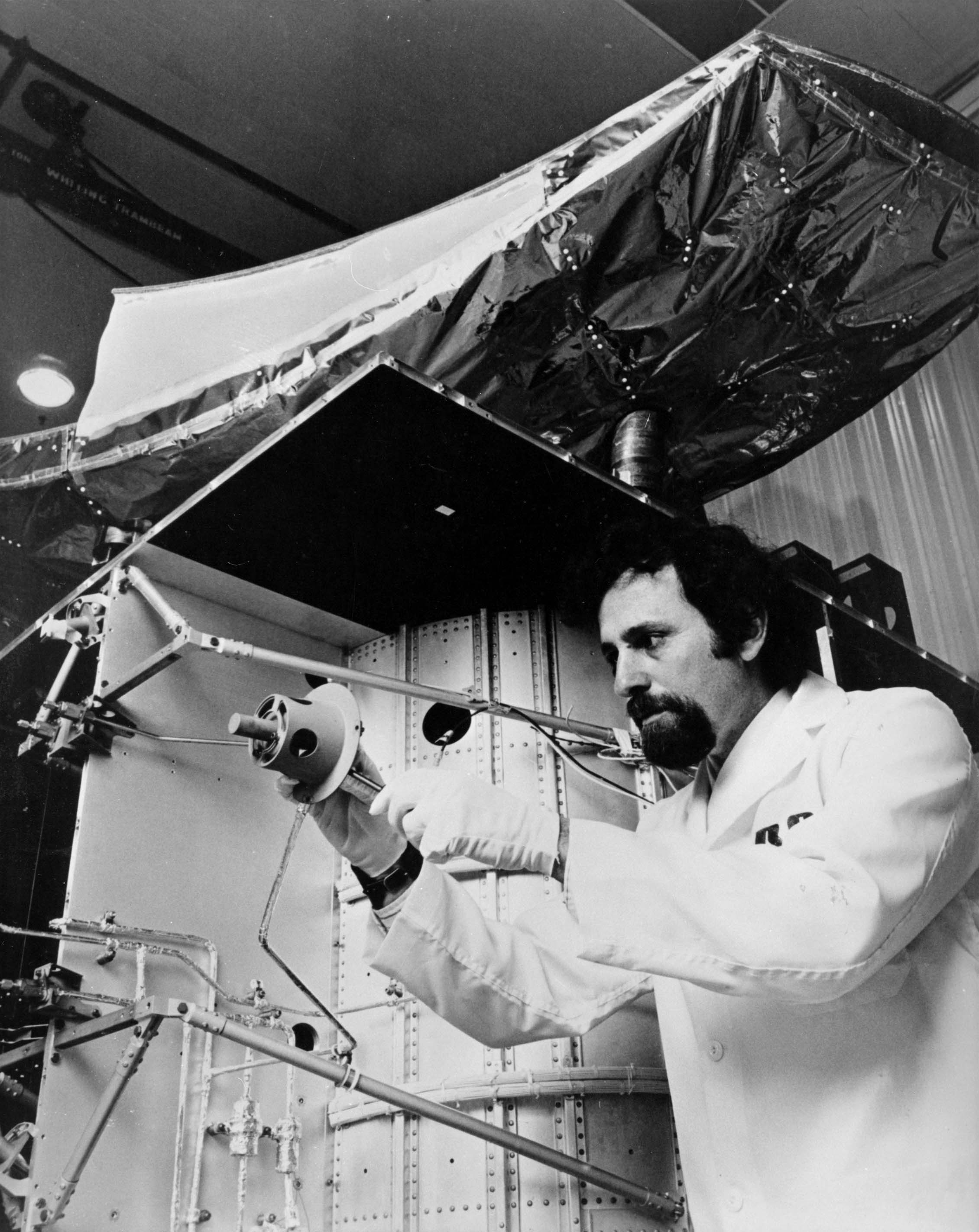 RCA engineer Joel Bacher adjusts a propulsion thruster on a communication satellite. The thrusters were designed to enable the spacecraft to maintain correct altitude control after it had achieved a 22,000-mile synchronous orbit over Earth. The satellite shown is an RCA Satcom domestic communication satellite that was launched December 13, 1975. The satellite was built by RCA Global Communication, Inc. and RCA Alaska Communications, Inc. This domestic communication satellite spurred the cable television industry to unprecedented heights with the assistance of a company known as Home Box Office (HBO). Cable television networks relay signals to ground-based stations using satellites. This allowed cable television to enter into the suburban and metropolitan markets, thus causing HBO to accumulate 1.6 million subscribers by the end of 1977.